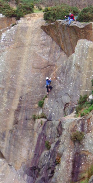 Photographed by myself on 2006-11-12. Improved with GIMP - cropped, altered saturation.